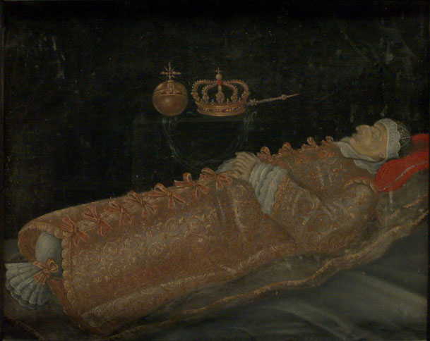 The crown depicted is an idealized version, not the actual crown of Christian IV